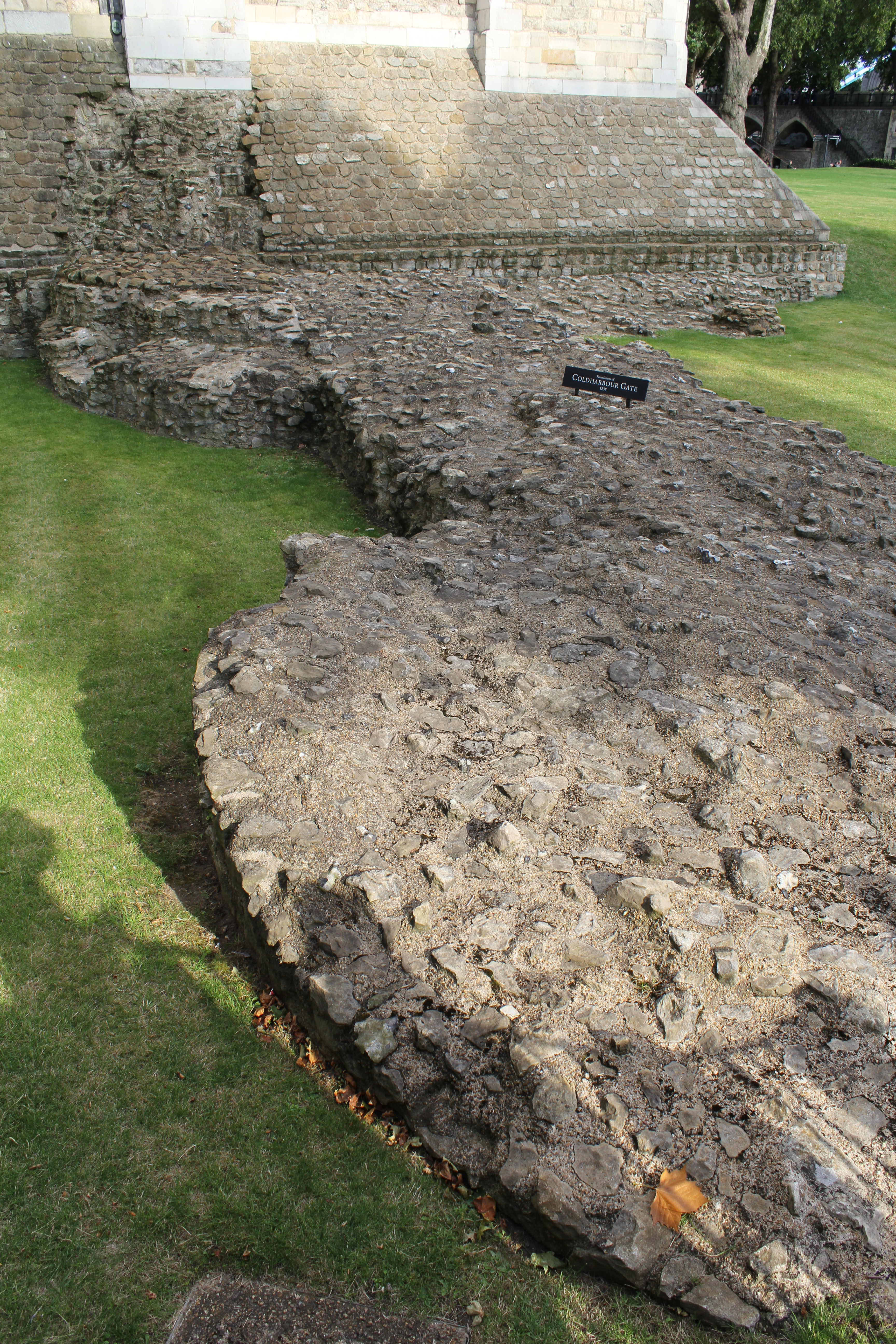 The remains of the Coldharbour Gate at the Tower of London. Note the layout of two D-shaped towers with a gatepassage between. Wikidata has entry Q17645576 with data related to this monument.